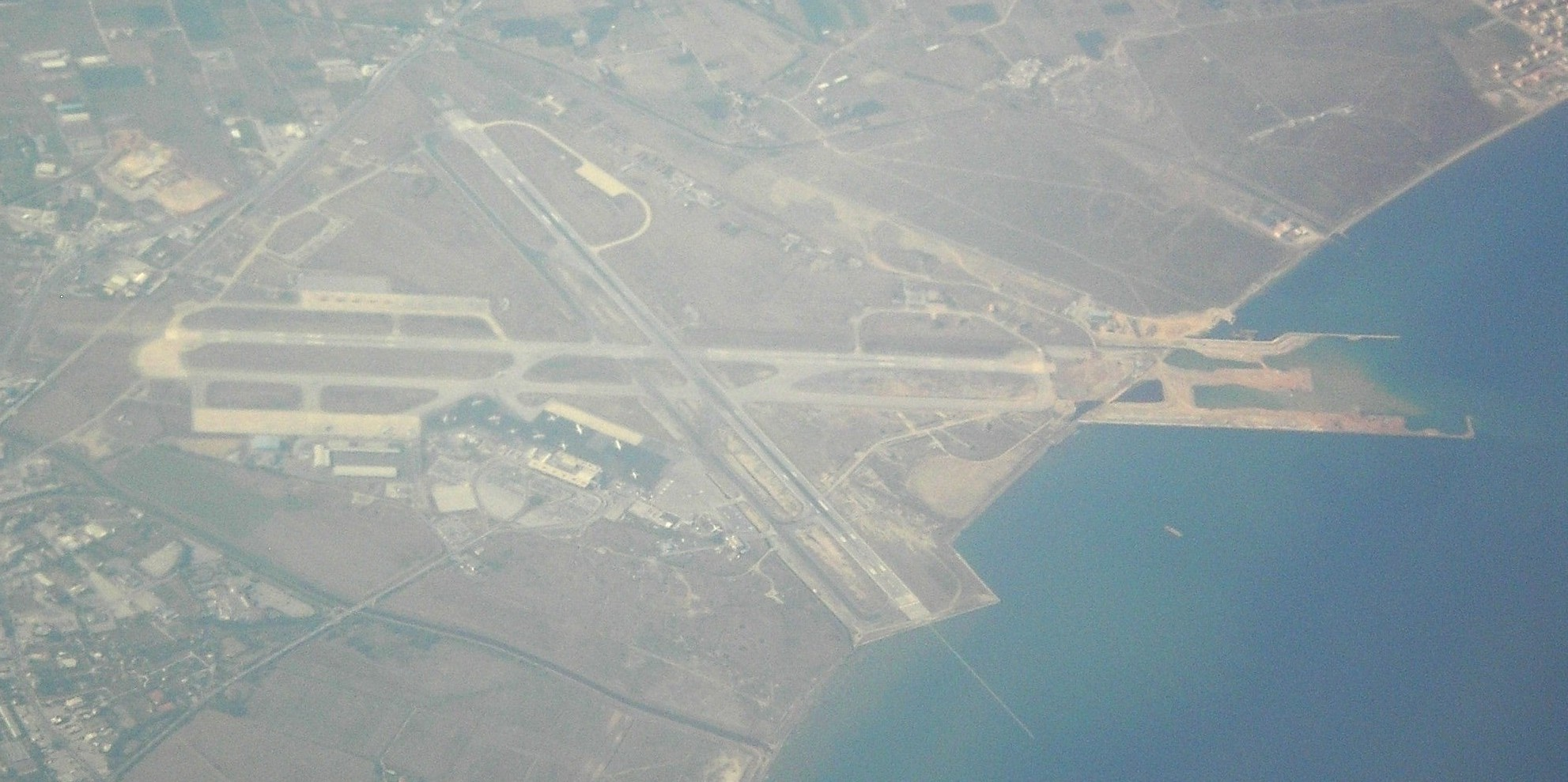 Aerial view of the Thessaloniki International Airport, "Macedonia", in Greece.